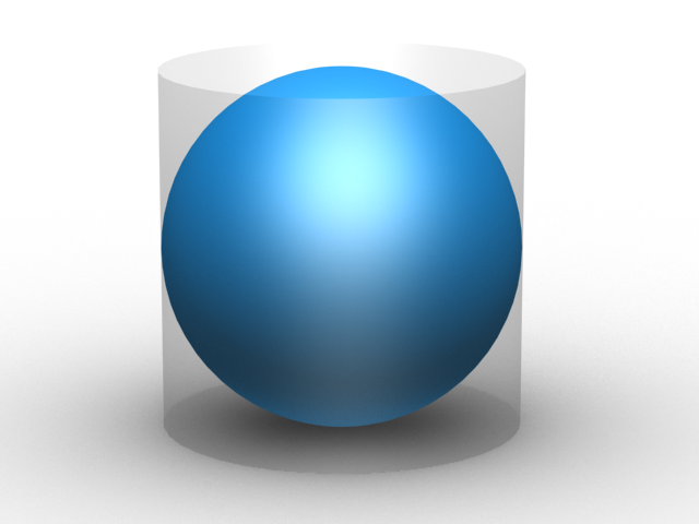 Archimedes sphere and cylinder. The sphere has 2/3 the volume and area of the circumscribing cylinder.